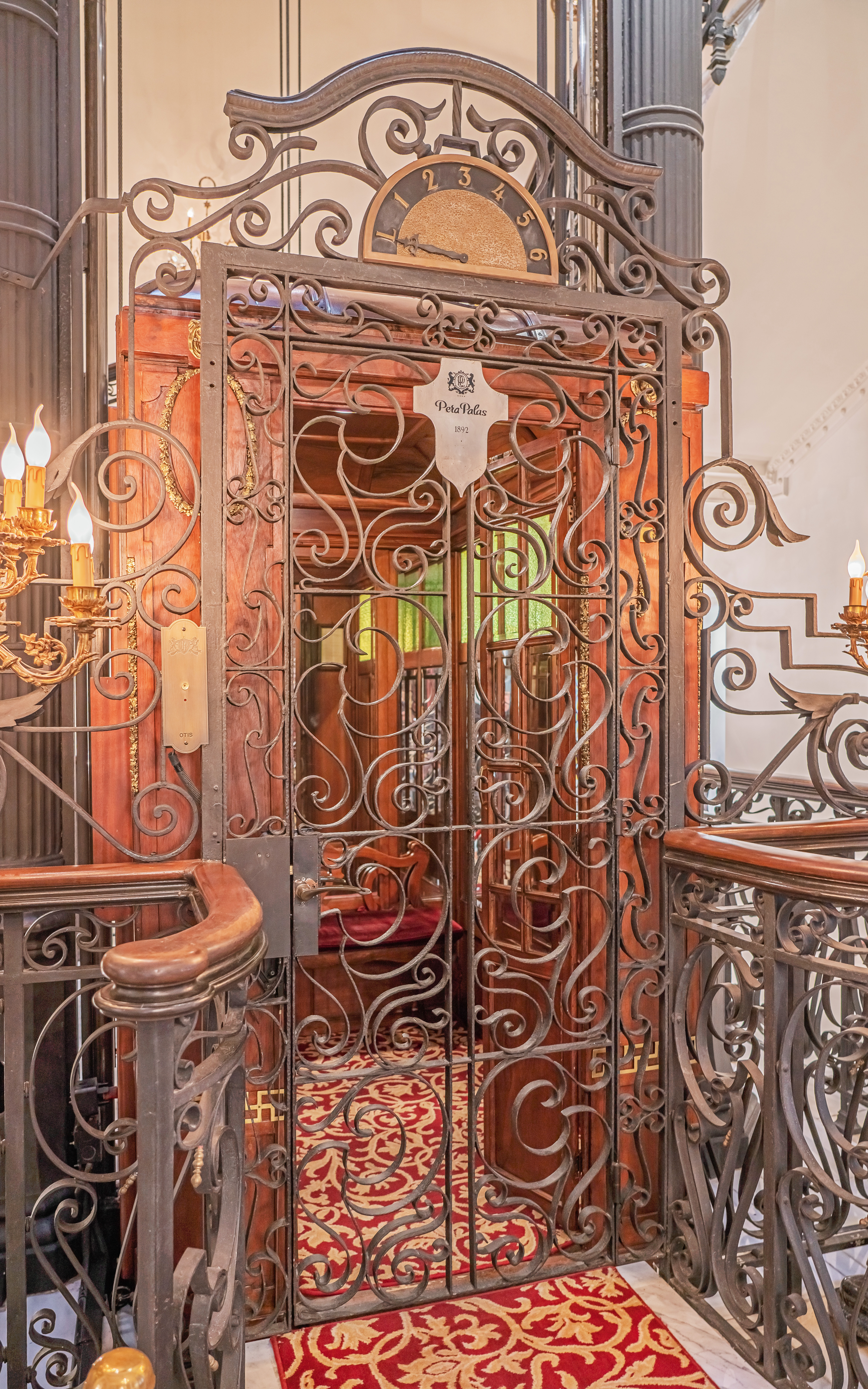 Historical elevator in the Pera Palace Hotel in Istanbul, Turkey